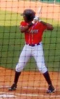 Justin Williams at bat for the Bowling Green Hot Rods in 2015